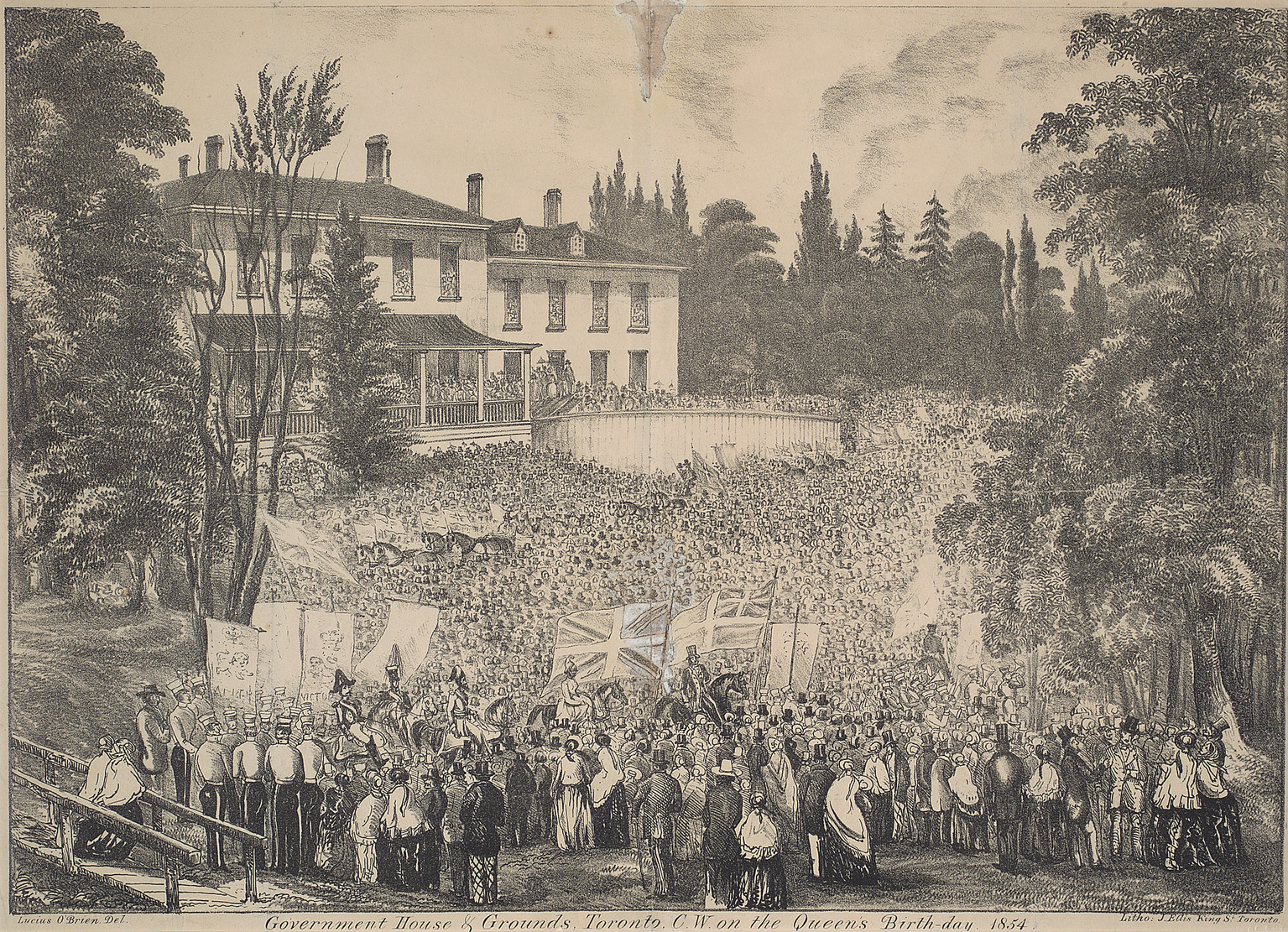 Celebration of Queen Victoria's birthday on the grounds of the second Government House of Upper Canada (the first outside of Fort York), at the corner of King and Simcoe Streets, Toronto.